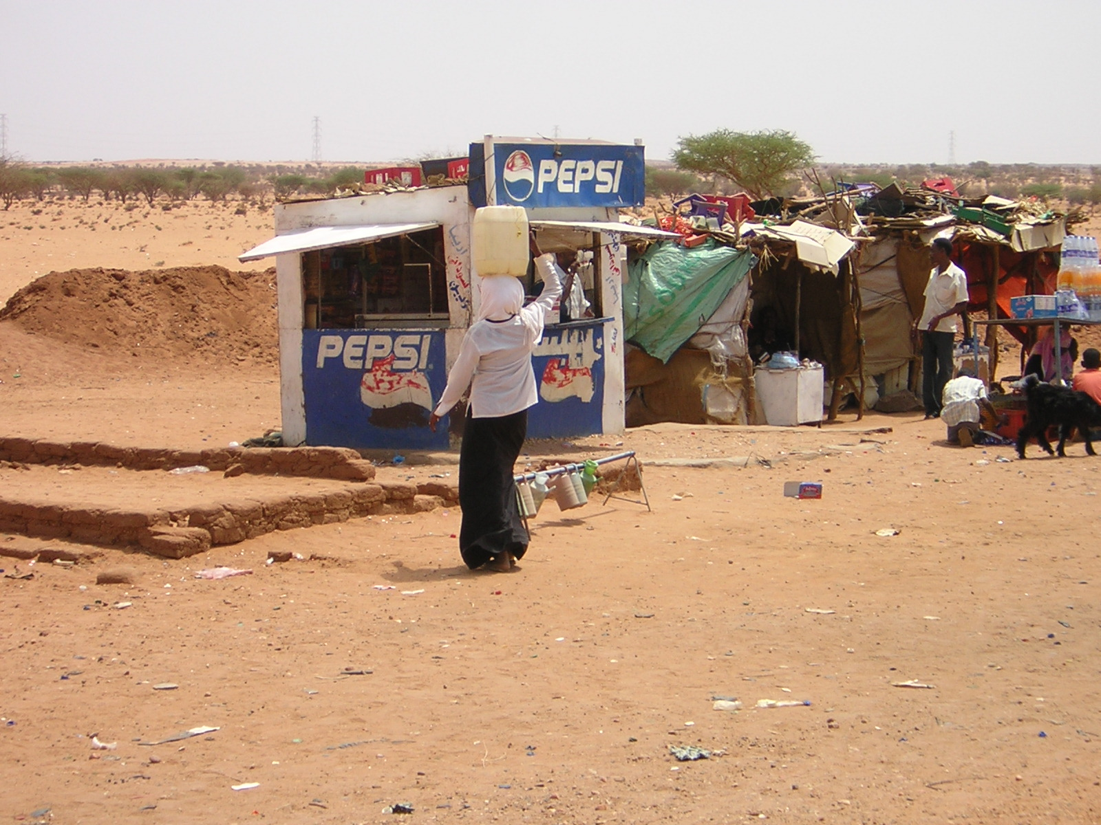 Rest area beside the road between Khartoum and Port Sudan, Sudan.